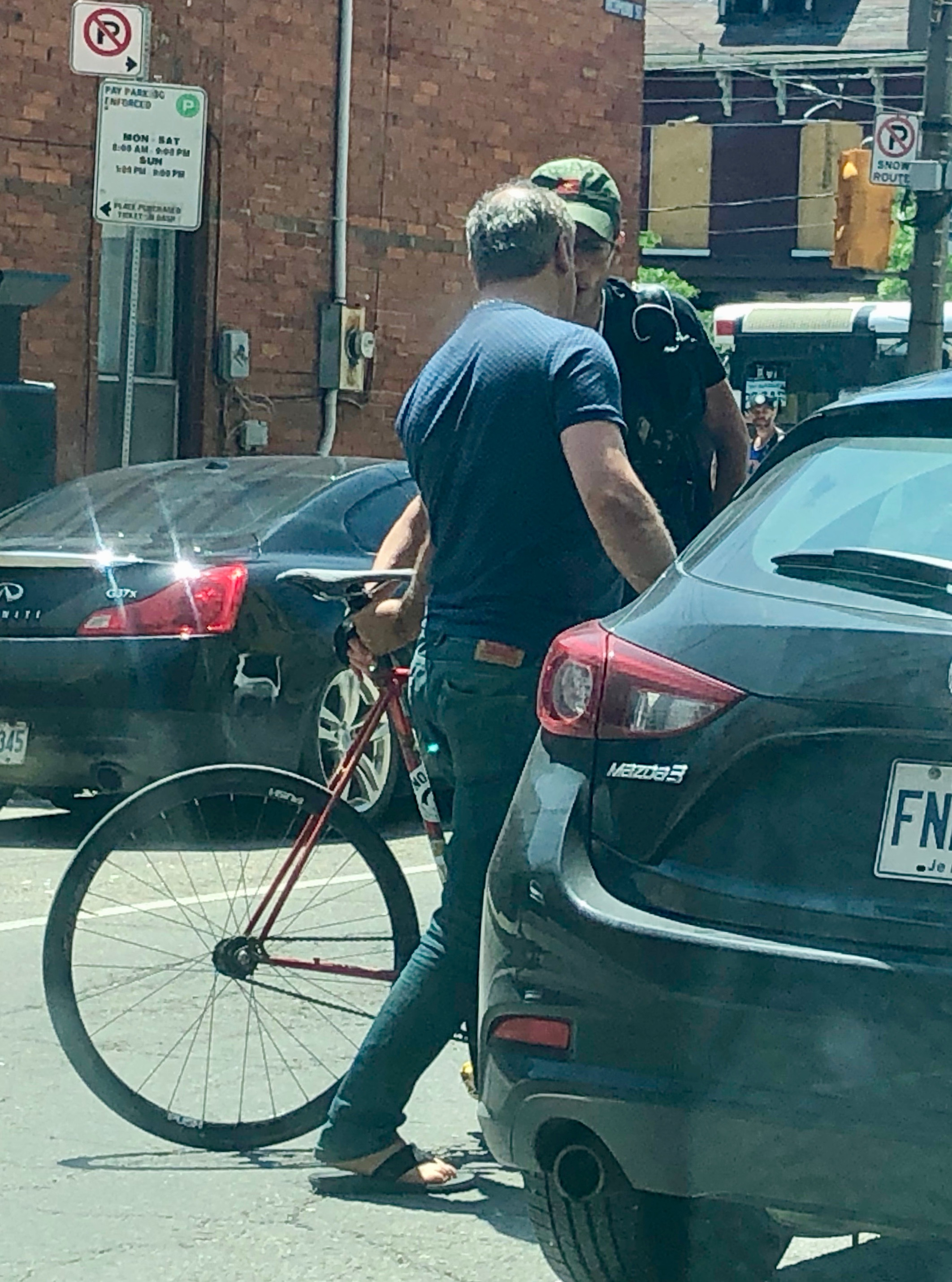 Photo of bike rage incident by Kathryn Cramer, taken June 23rd, 2019 at the intersection of Richmond Street West & Bathurst, Toronto,Ontario. Fist fight & physical confrontation in which the police were called and arrived to take statements.